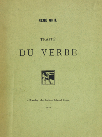 Cover print of Traité du Verbe by René Ghil, published by Edmond Deman in Bruxelles.